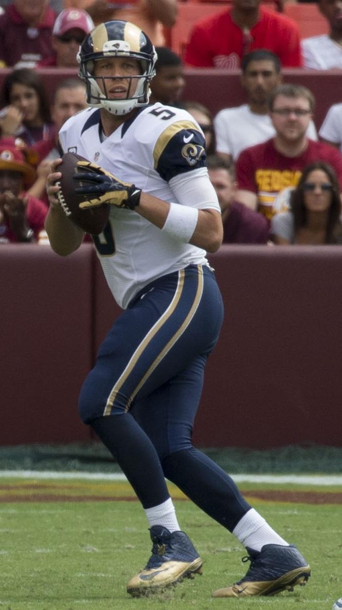 Rams at Redskins 9/20/15